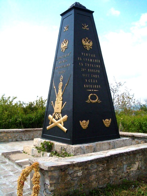 The Russian monument in the graveyard of village Posabina, Bulgaria, devoted to the Russian soldiers who died in the battle of 28 November 1877, near the village